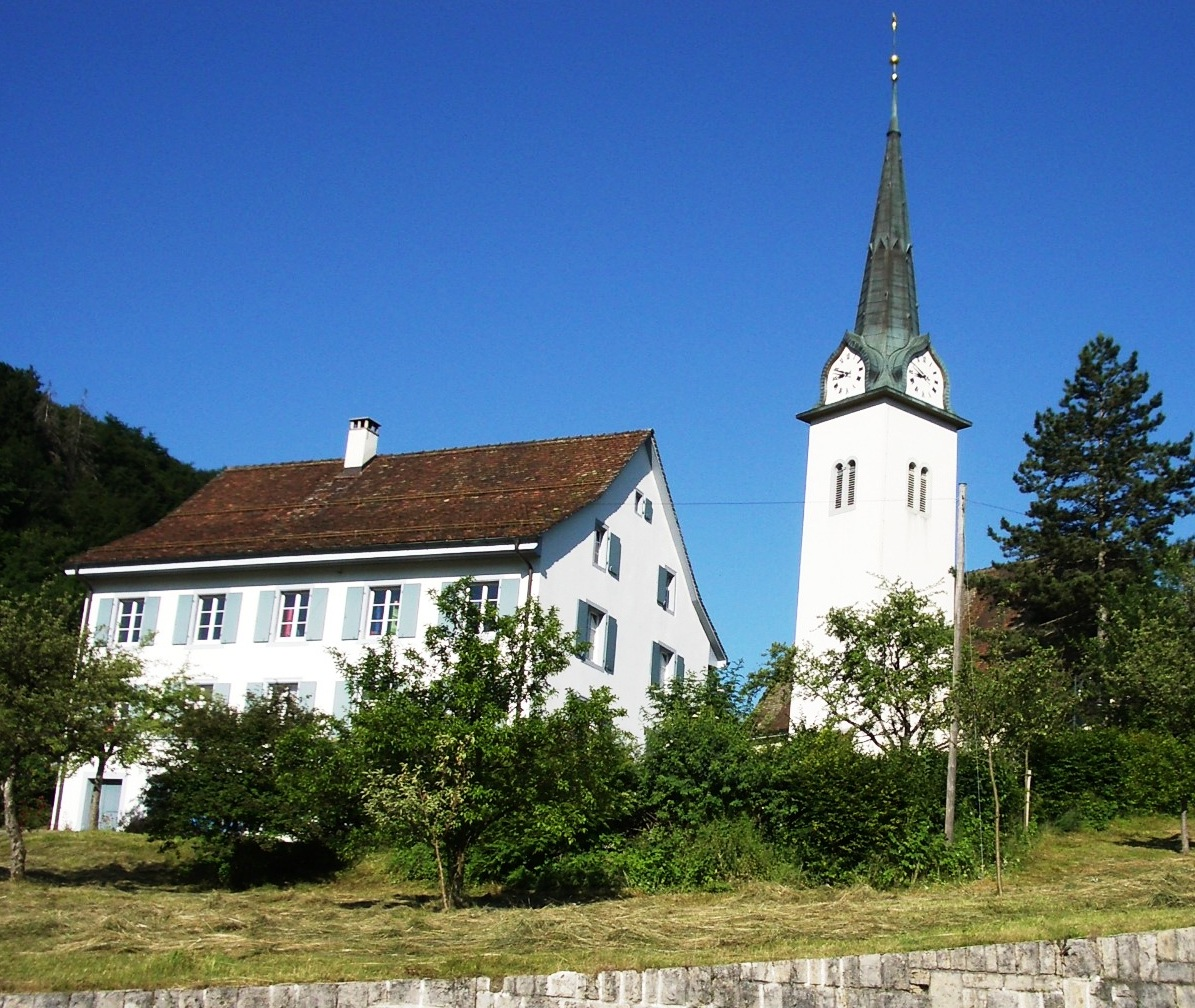 Langenbruck BL, Switzerland